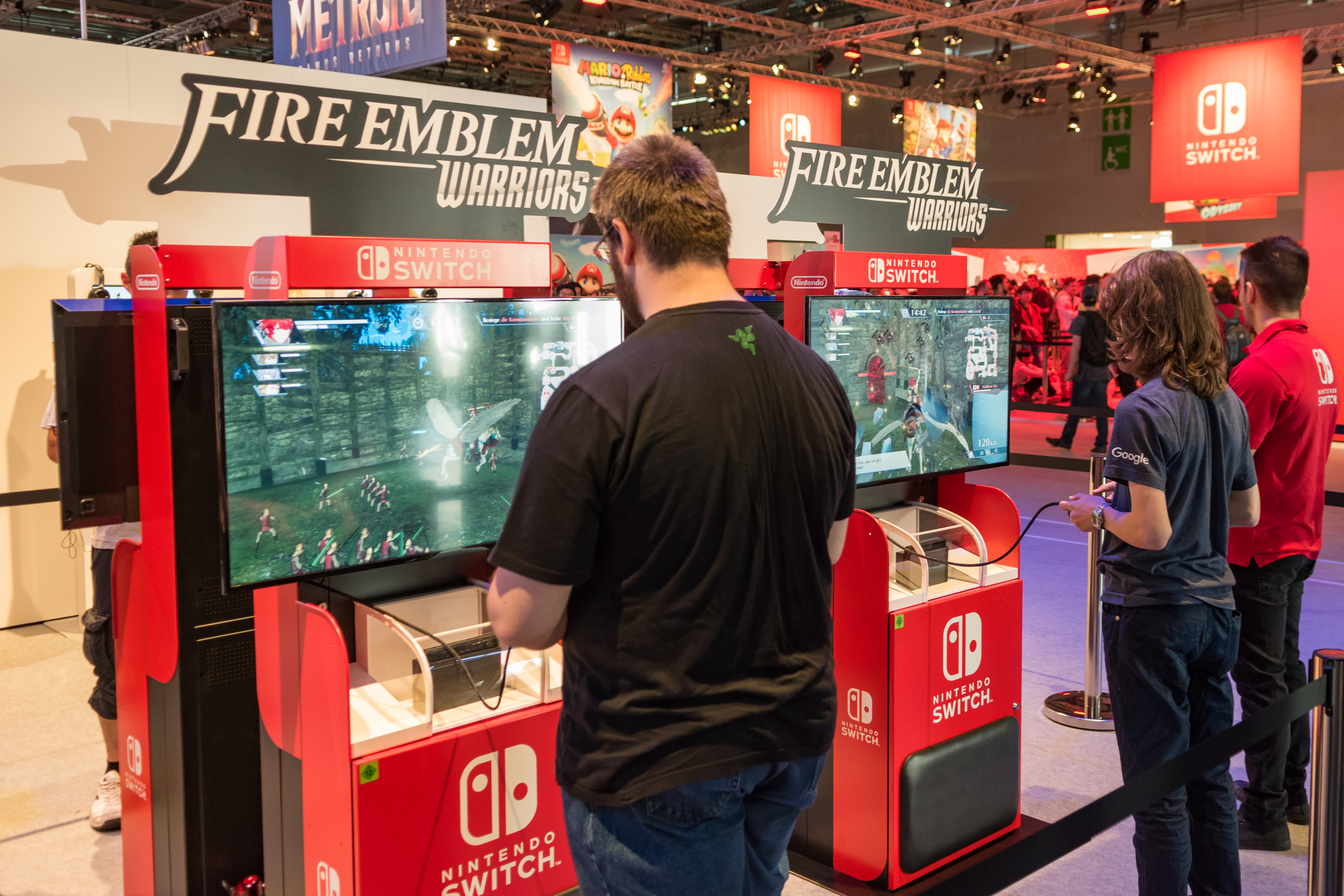 Nintendo Switch Fire Emblem Warriors